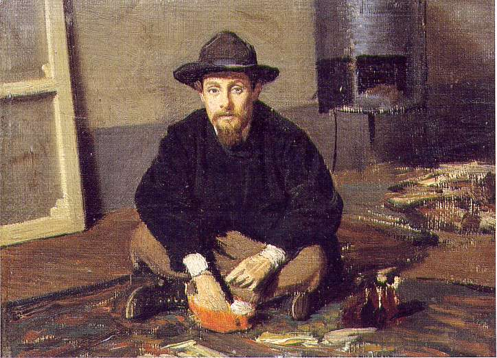 Portrait of Diego Martelli